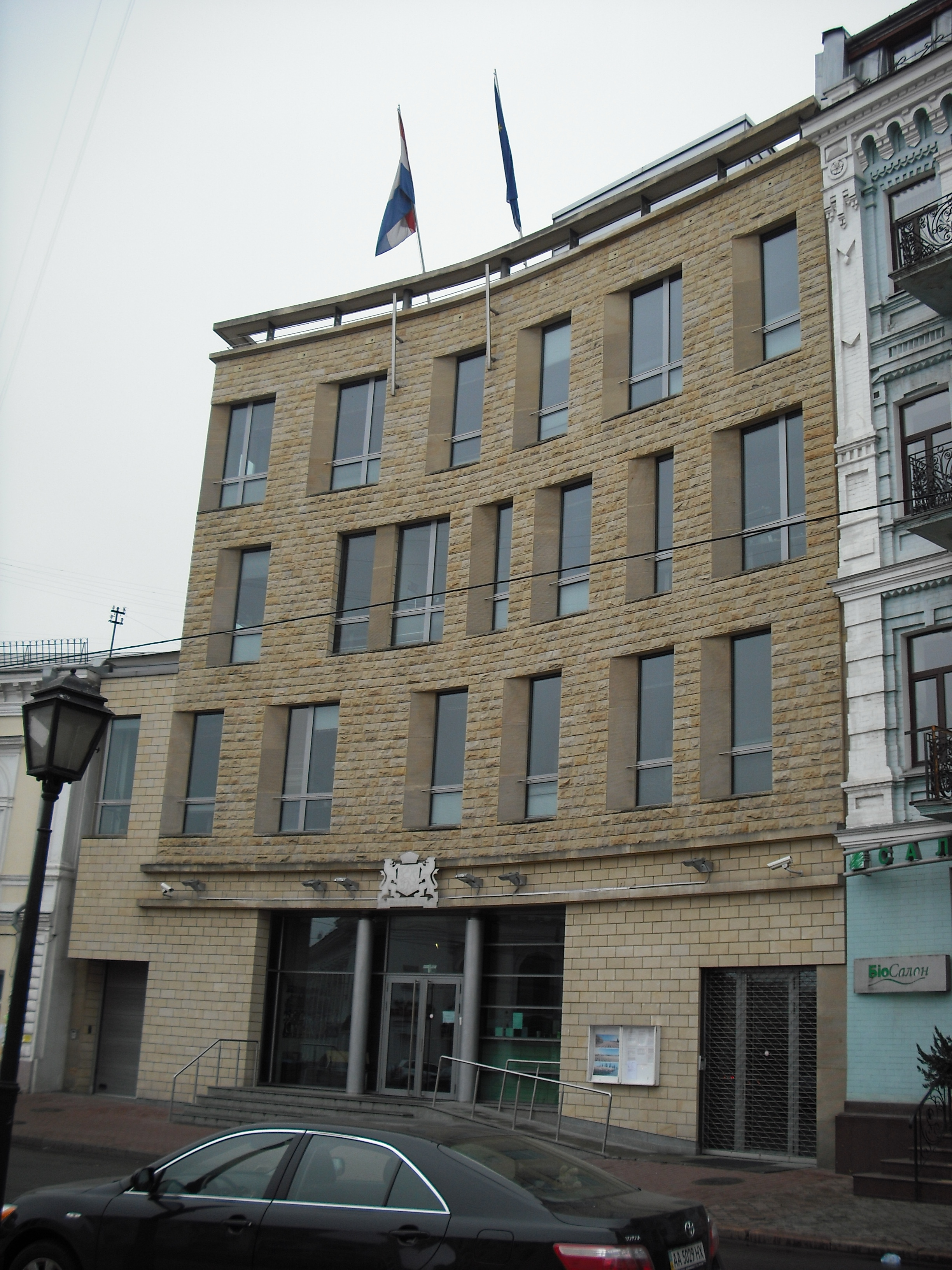 Embassy of the Netherlands on Kontraktova Square, Kiev, Ukraine